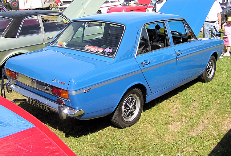 1972 Hillman Hunter GLS at Bristol Car Show, The Downs, Bristol, England. Taken by Adrian Pingstone in June 2004 and released to the public domain.